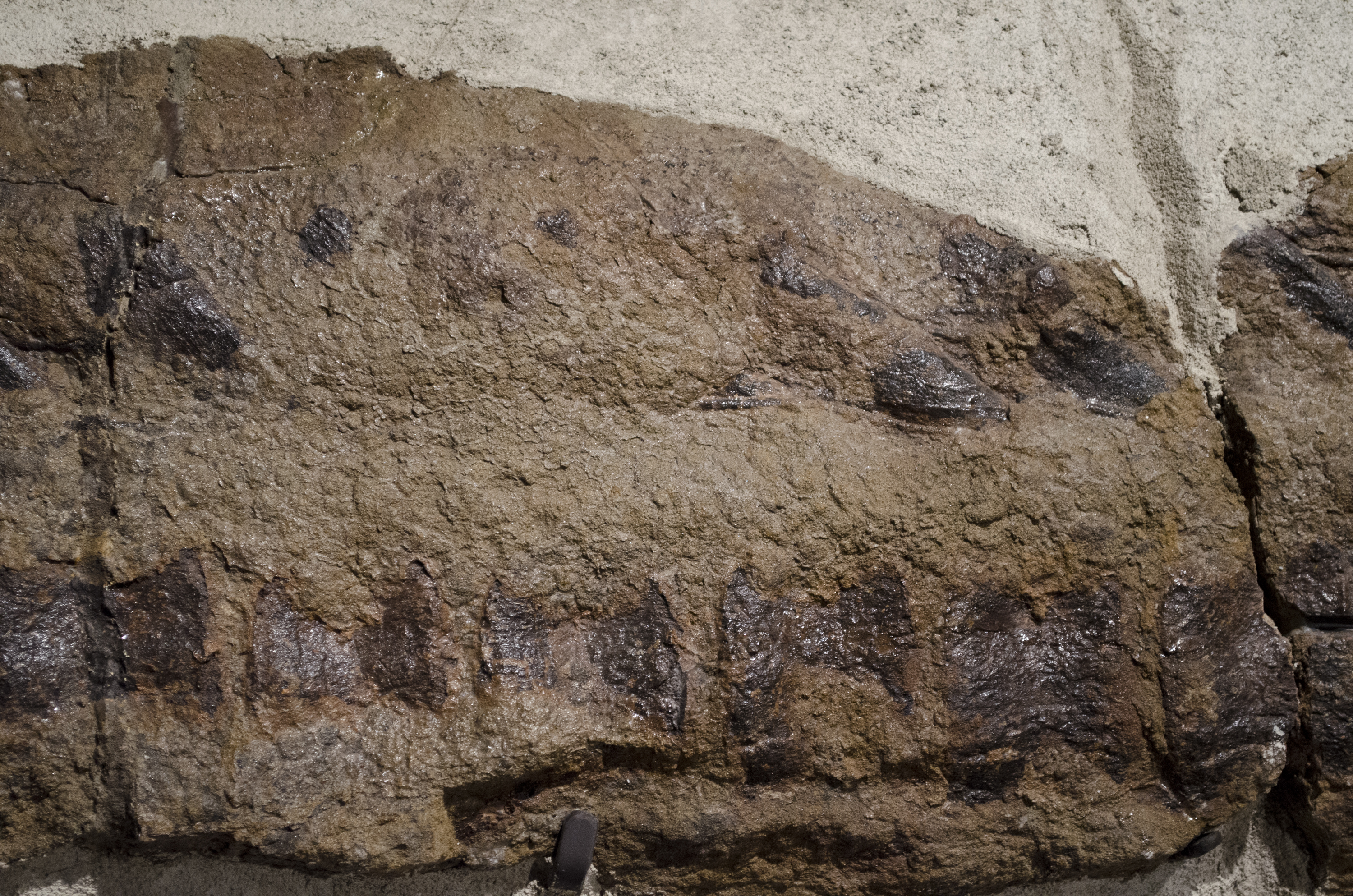 Fossilized tailbone of an Edmontosaurus at the Museum of the Rockies in Bozeman, Montana. Note the impressions left by the skin in the rock (best seen between the upper and lower rows of darker bone), indicating that the skin was loose and lumpy on this specimen. (It is unclear where this fossil is from.)